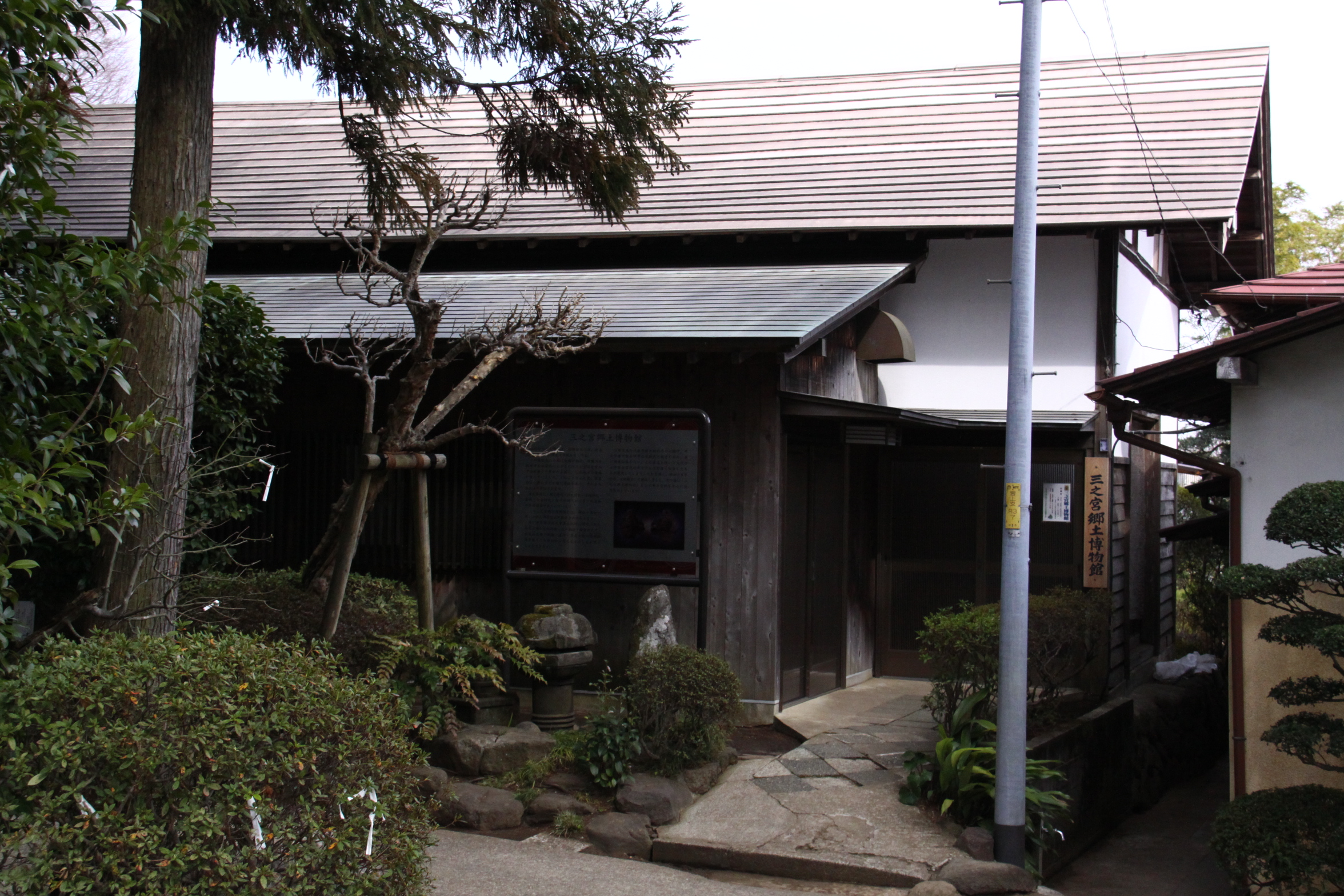 Sannomiya museum